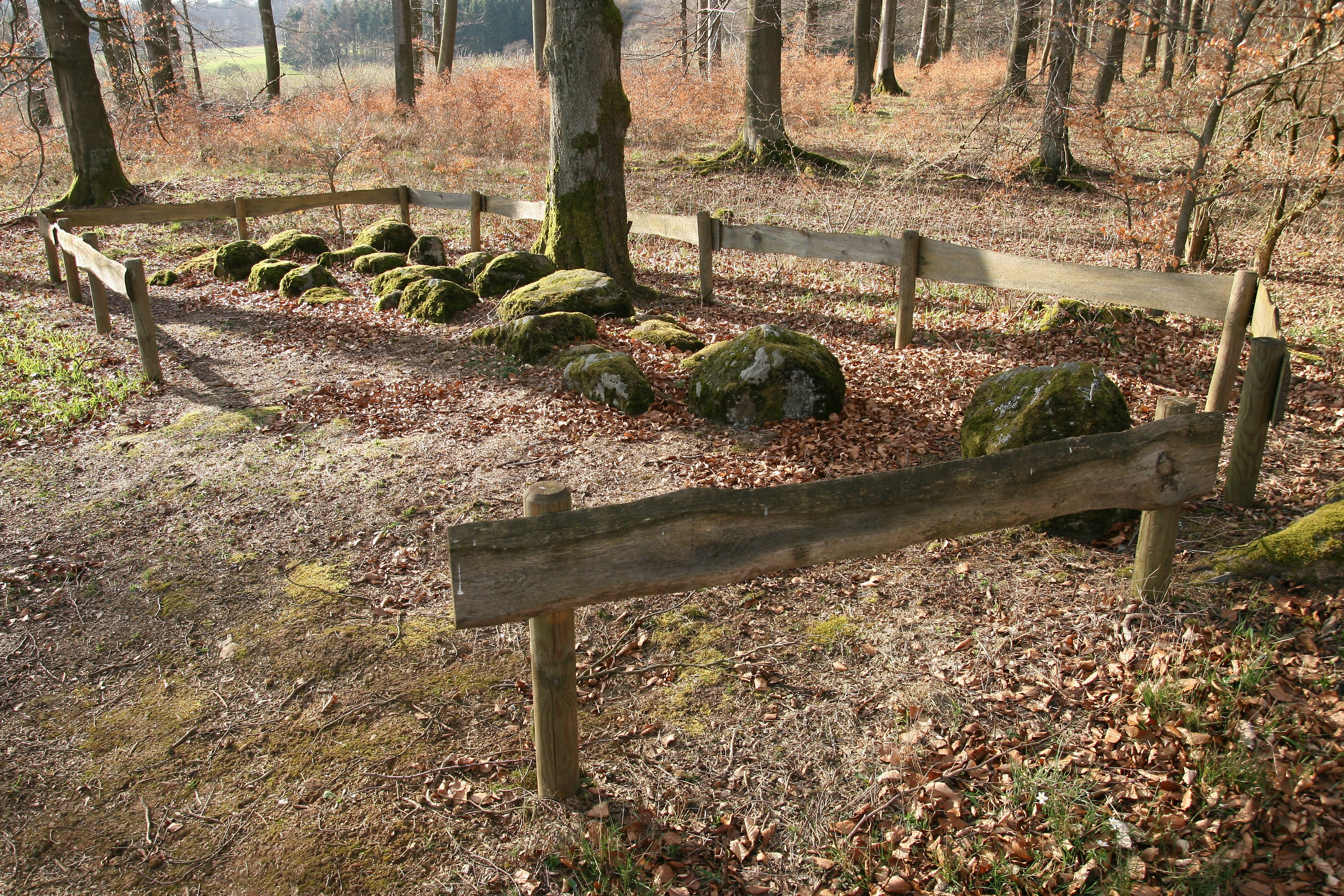 Supposed astronomical stone setting, approx. 1 km north-north-east of Wölferlingen (Westerwald, Germany) at the edge of a forest